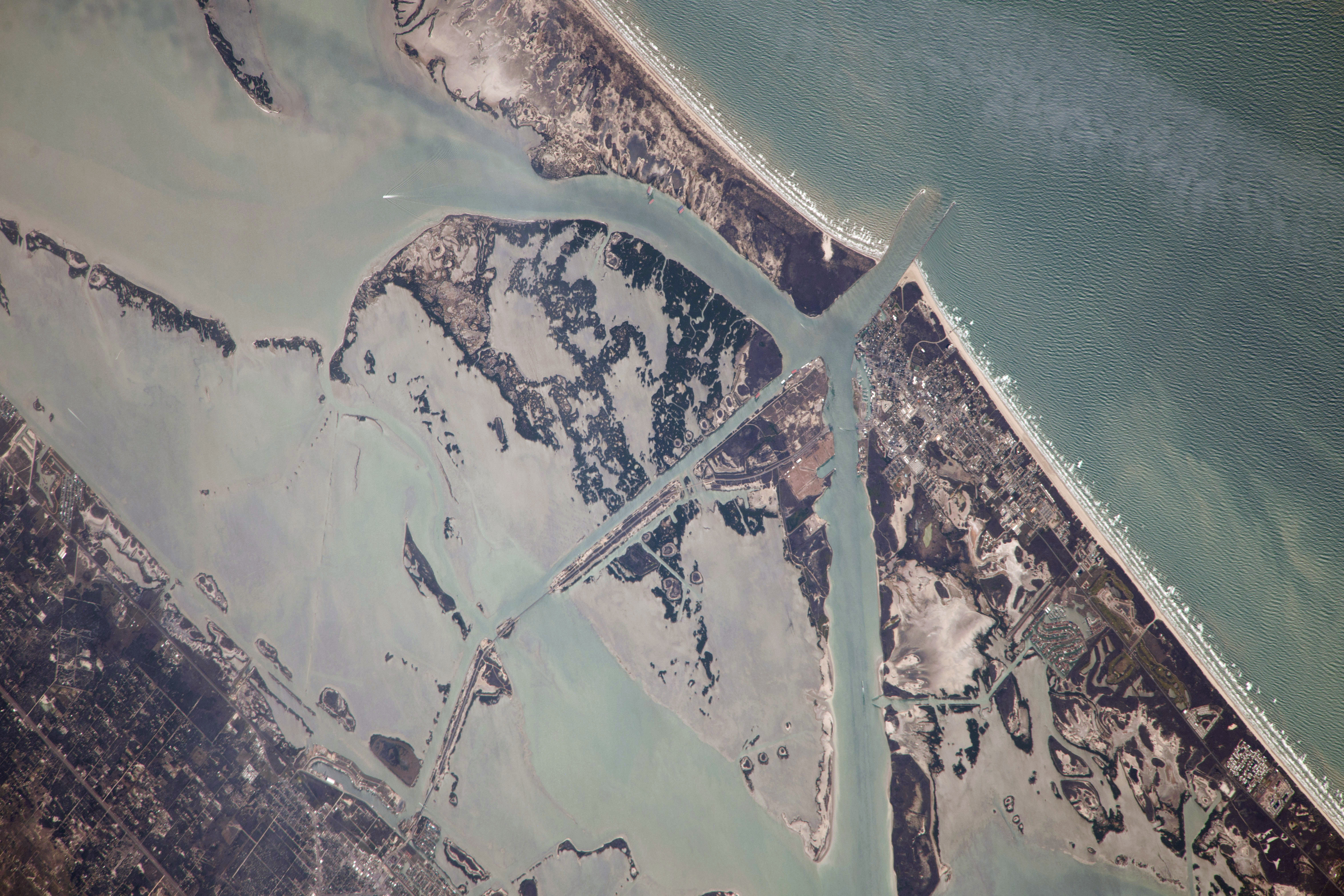 One of the Expedition 38 crew members aboard the International Space Station photographed this image of the Gulf of Mexico's Intracoastal Waterway in southern Texas. Represented in the photo are 18 kilometers (11.2 miles) of the overall 4800 kilometers-long (3000 miles) barge channel that lies on the protected inshore of the coastal islands of the southern and eastern USA, including coastal Texas. The small city of Port Aransas lies on a barrier island fully 18 kilometers (11.2 miles) seaward of the mainland and its sister city, Aransas Pass (lower left). This image shows parts of the waterway that are artificial, as in the straight sector leading into Corpus Christi Bay. Corpus Christi lies outside the lower margin of the image. Other sectors of the waterway are natural bays such as Aransas Bay. Jetties protect the inlet into the Gulf of Mexico (top right). Inlets at many points cut through the barrier islands to give shipping access to the Gulf of Mexico and the Atlantic Ocean.